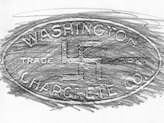 Scan of rubbing by johnfravolda Johnfravolda (talk) 19:39, 13 June 2009 (UTC) Image is of a logo from the Washington Charcrete Co. taken from a concrete utility sink. The logo is an oval 8" by 4 1/4" featuring a 2 1/8" swastika in the center that was apparently stamped into the concrete. The upper part of the logo contains the text "WASHINGTON" along the inner curve of the oval border. Also following the inner curve of the oval beneath the swastika is the text "CHARCRETE CO". The text "TRADE" and "MARK" appear on left and right of the central swastika defining a horizontal line through the axis of the oval. The sink is from a house in Seattle, state of Washington, USA. The house was built in 1910 but was probably moved to its current foundation sometime before 1938.